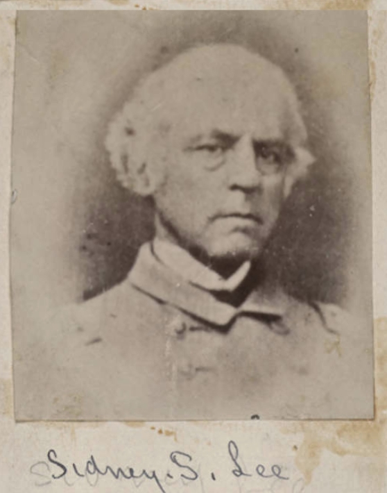 Sydney Smith Lee (September 2, 1802 – July 22, 1869) was a U.S.N. (cmdr.) and later a C.S.N. (capt.) officer, and an older brother to Robert E. Lee.